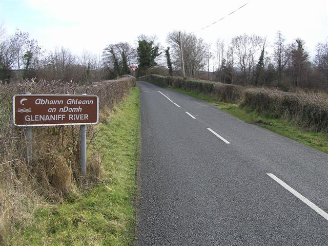 R281 at Tawnaleck Heading south-east